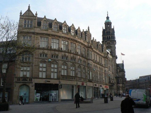 Sheffield: shops on Fargate The attractive result of 446574 - a pedestrianised shopping street in the city centre.